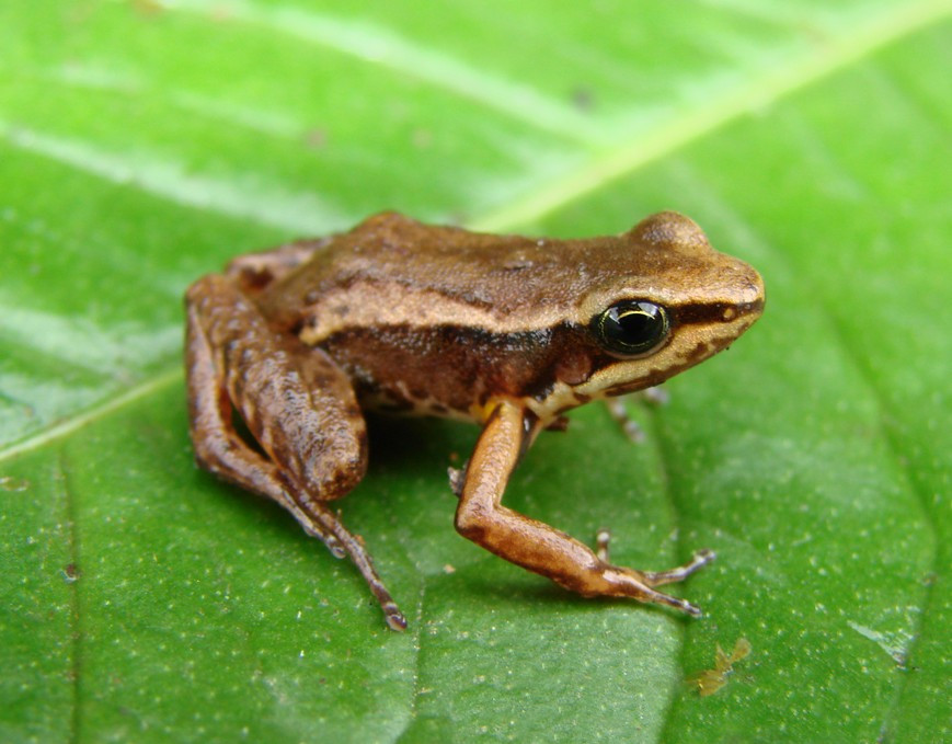 Hyloxalus subpunctatus